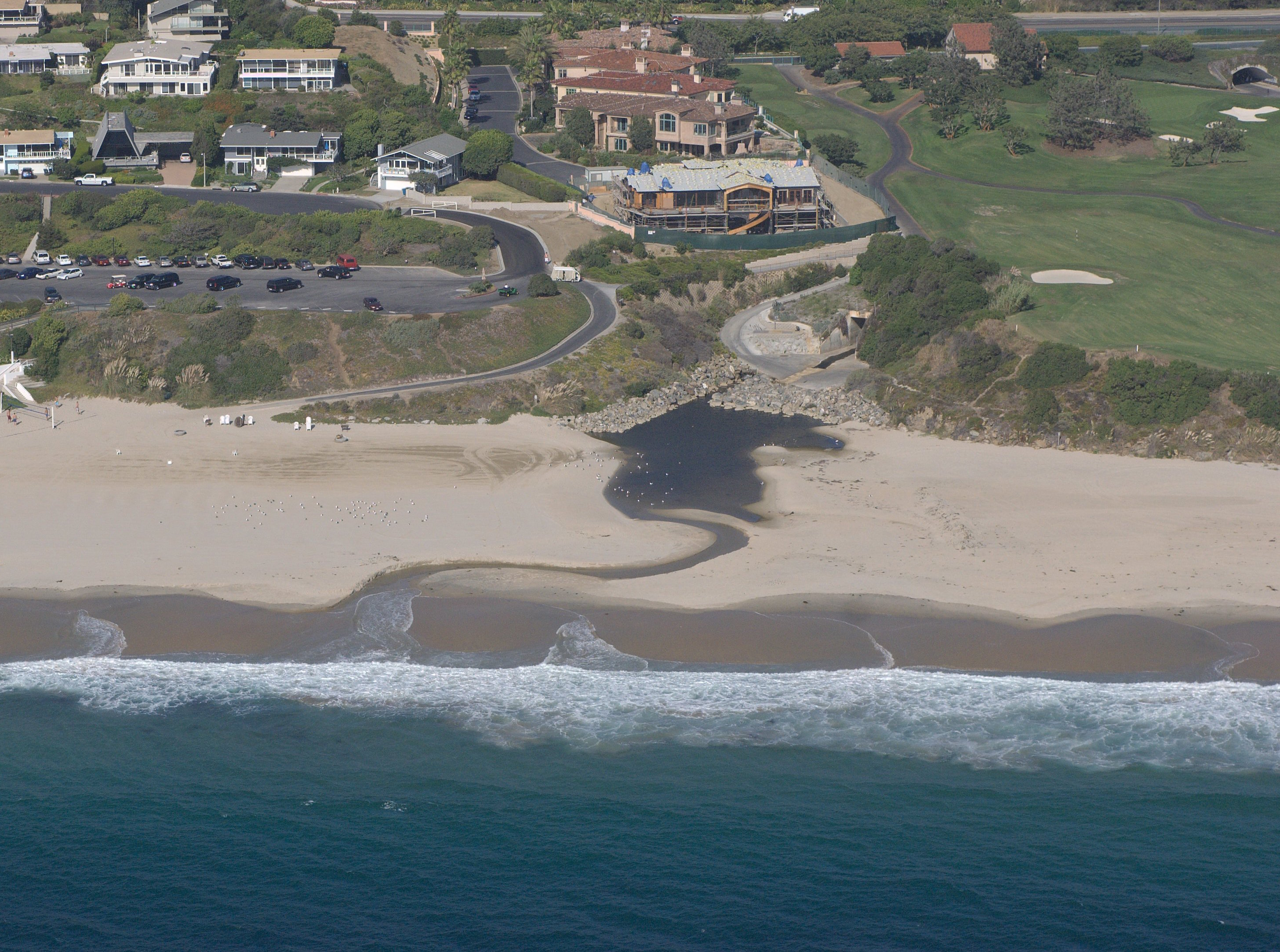 Salt Creek, Dana Point, Orange County CA. Cropped from original Copyright (C) 2006 Kenneth & Gabrielle Adelman, California Coastal Records